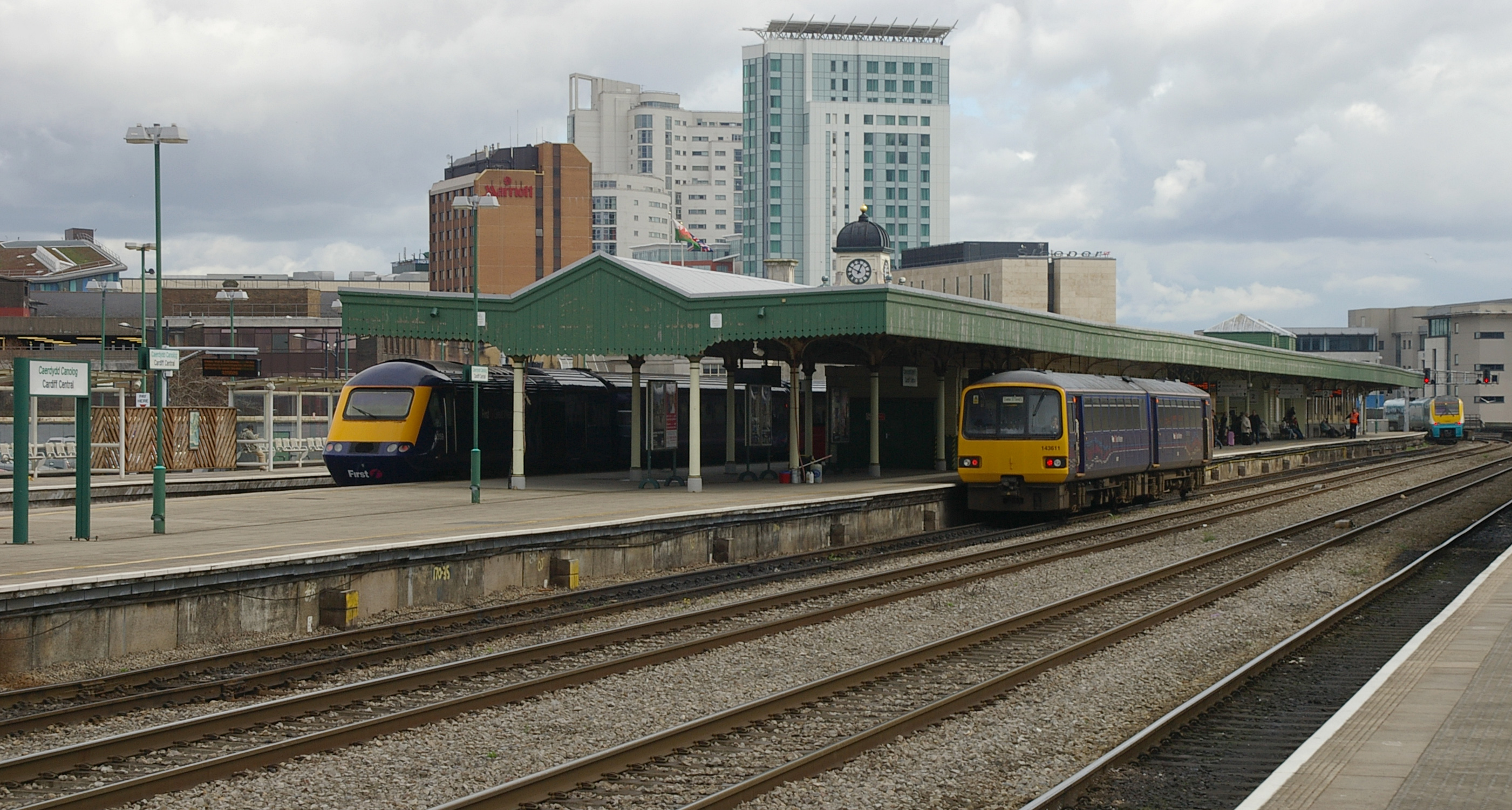 First Great Western unit 143611, an Intercity service to Paddington tailed by 43159 and Arriva Trains Wales 175101 (departing) at Cardiff Central railway station.